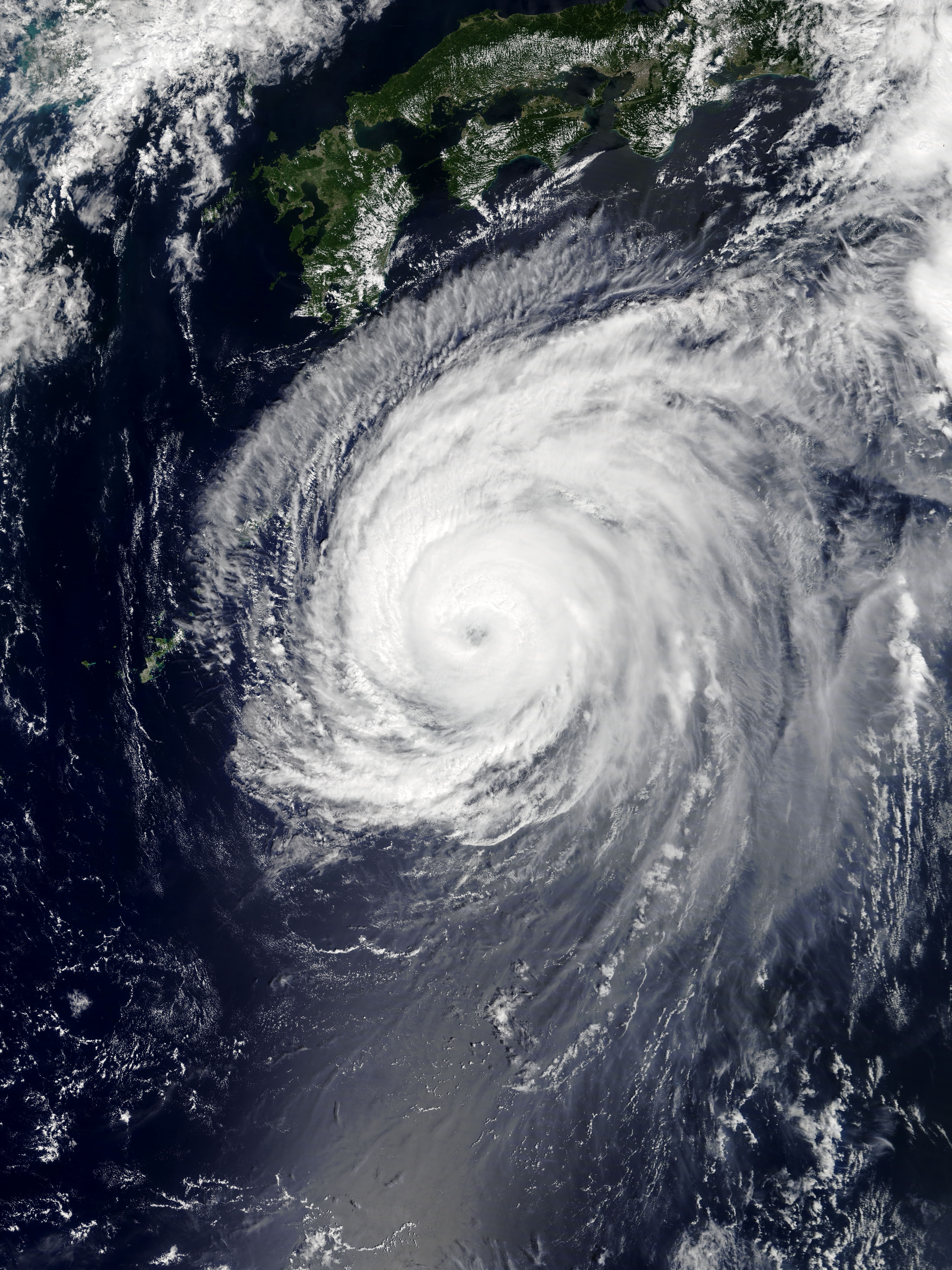 Typhoon Jebi approaching Japan on September 3, 2018.